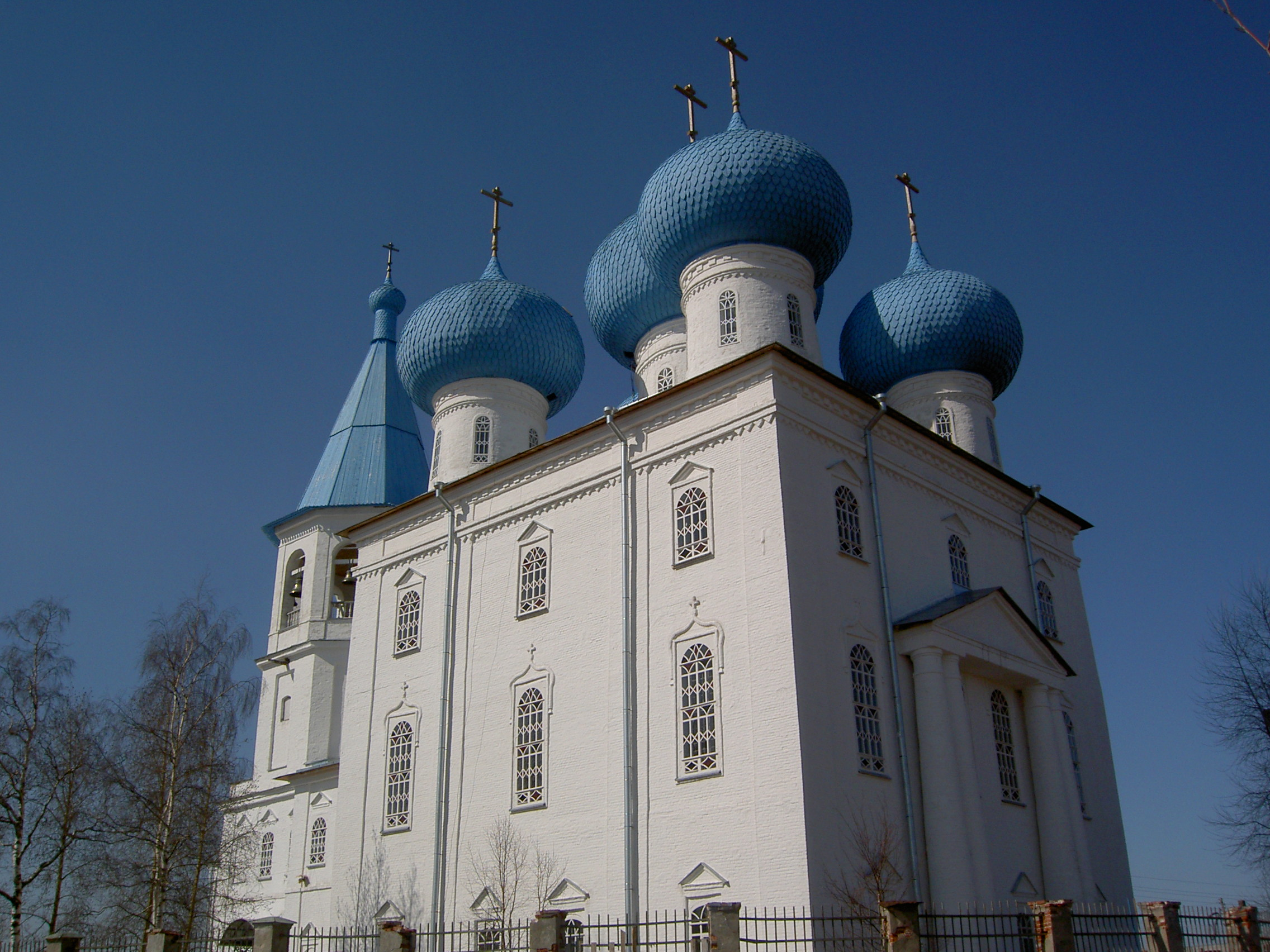 Church of Presentation of Jesus at the Temple in Zaostrovje near Arkhangelsk, Russia (1827)